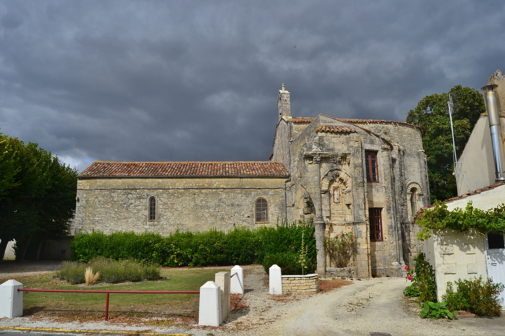 église St Laurent